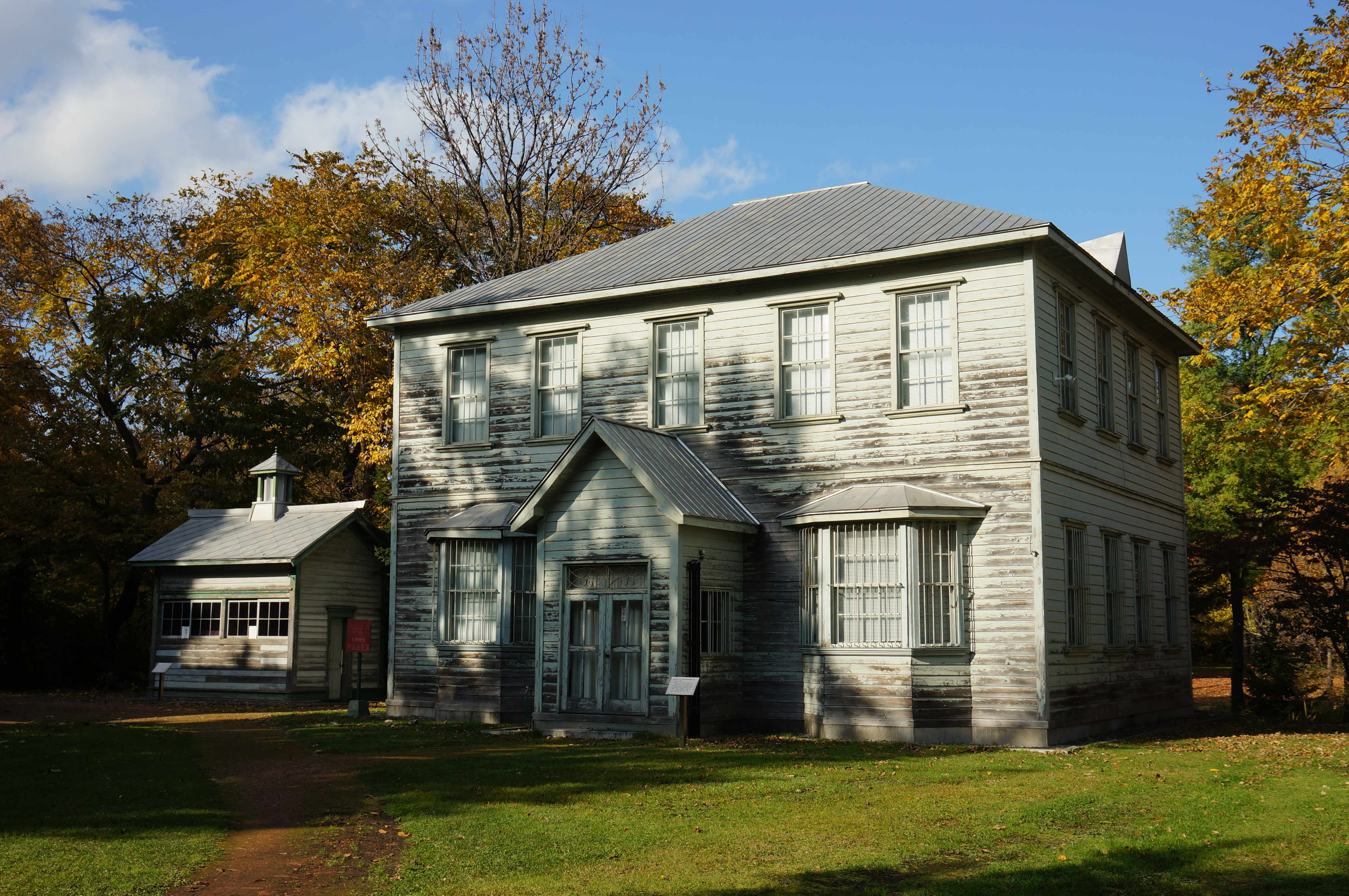 At Hokkaido University Botanical Gardens in Sapporo, Hokkaido prefecture, Japan.